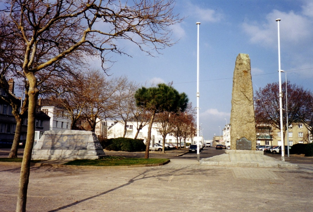 HMS Lancastria War Memorial in St. Nazaire